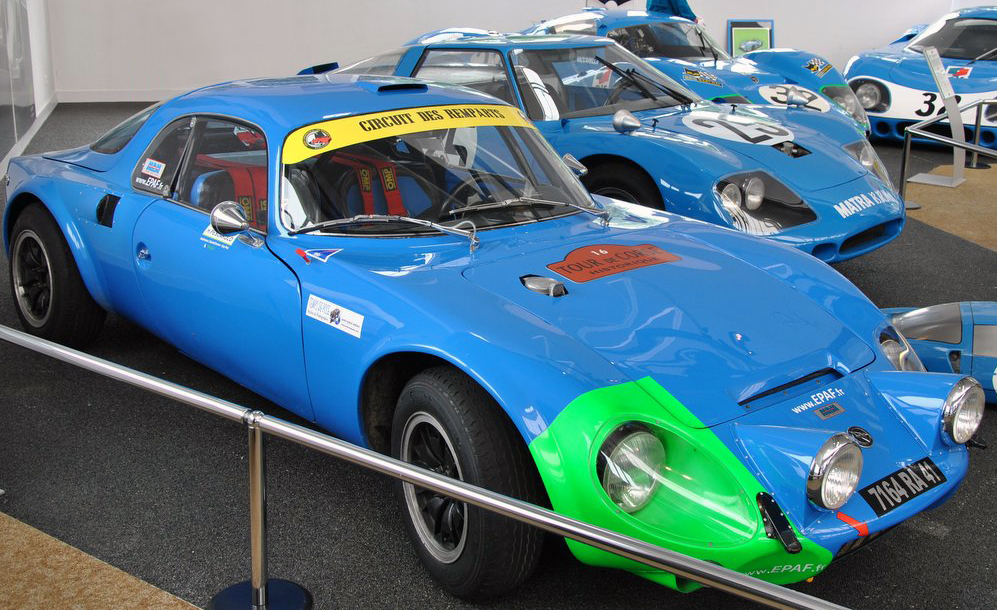 This, the Matra 610 "Coupé Napoléon" is the first Matra Prototype competition car. Obviously based on René Bonnet's "Djet" it was developed with rallying in mind, although it only competed in one event. It started in the 1965 "Rally des Cevennes", with Johnny Servoz-Gavin and Fargeon. Being too much Bonnet and not enough Matra, Matra-boss Jean-Luc Lagardère decided to abandon this in favour of the upcoming MS620 (the car right behind in this photo). The original was destroyed, this is a recreation made with spare parts and is displayed at the Musée Matra in Romorantin, France.